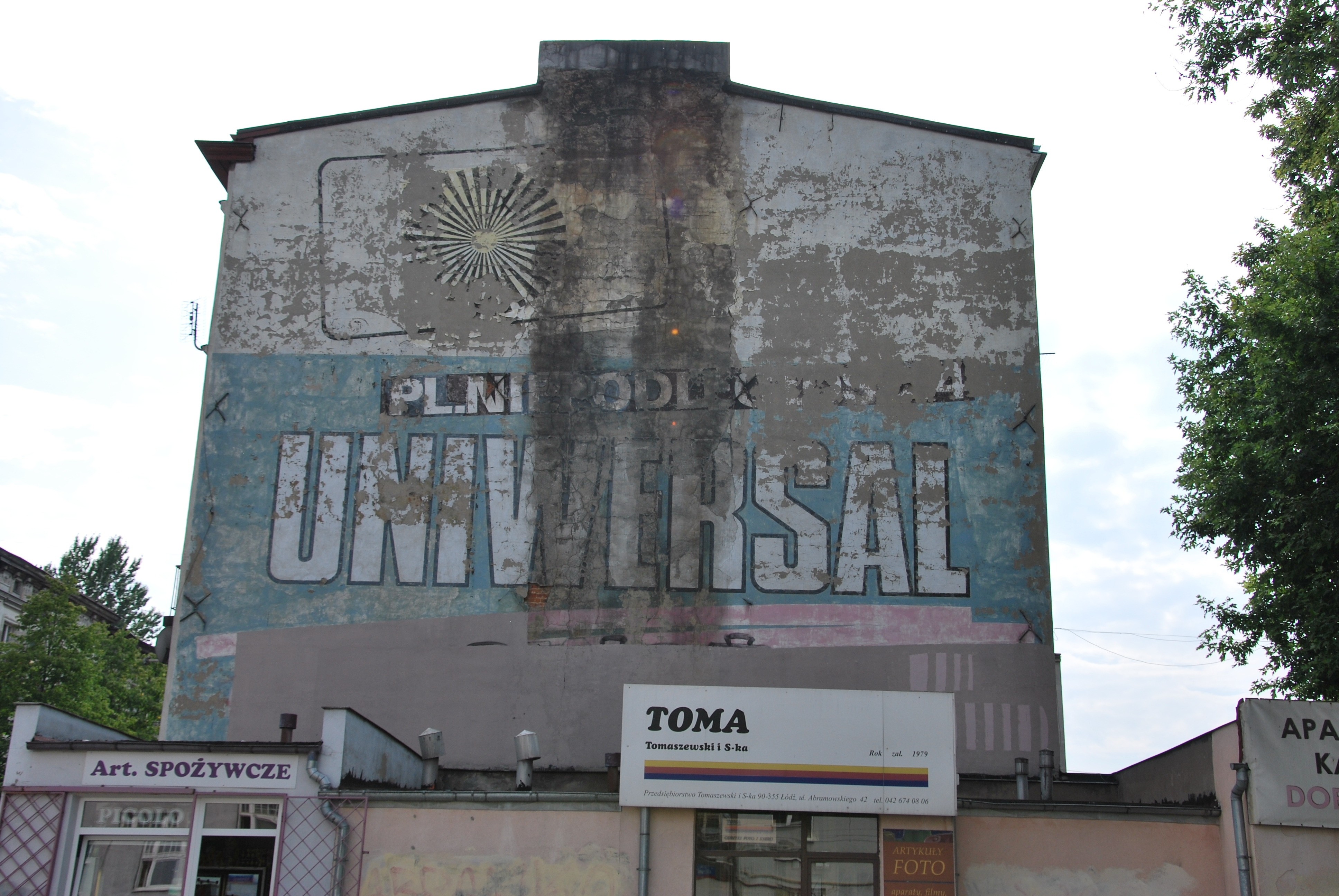 Old mural, Łódź Abramowskiego Street 42